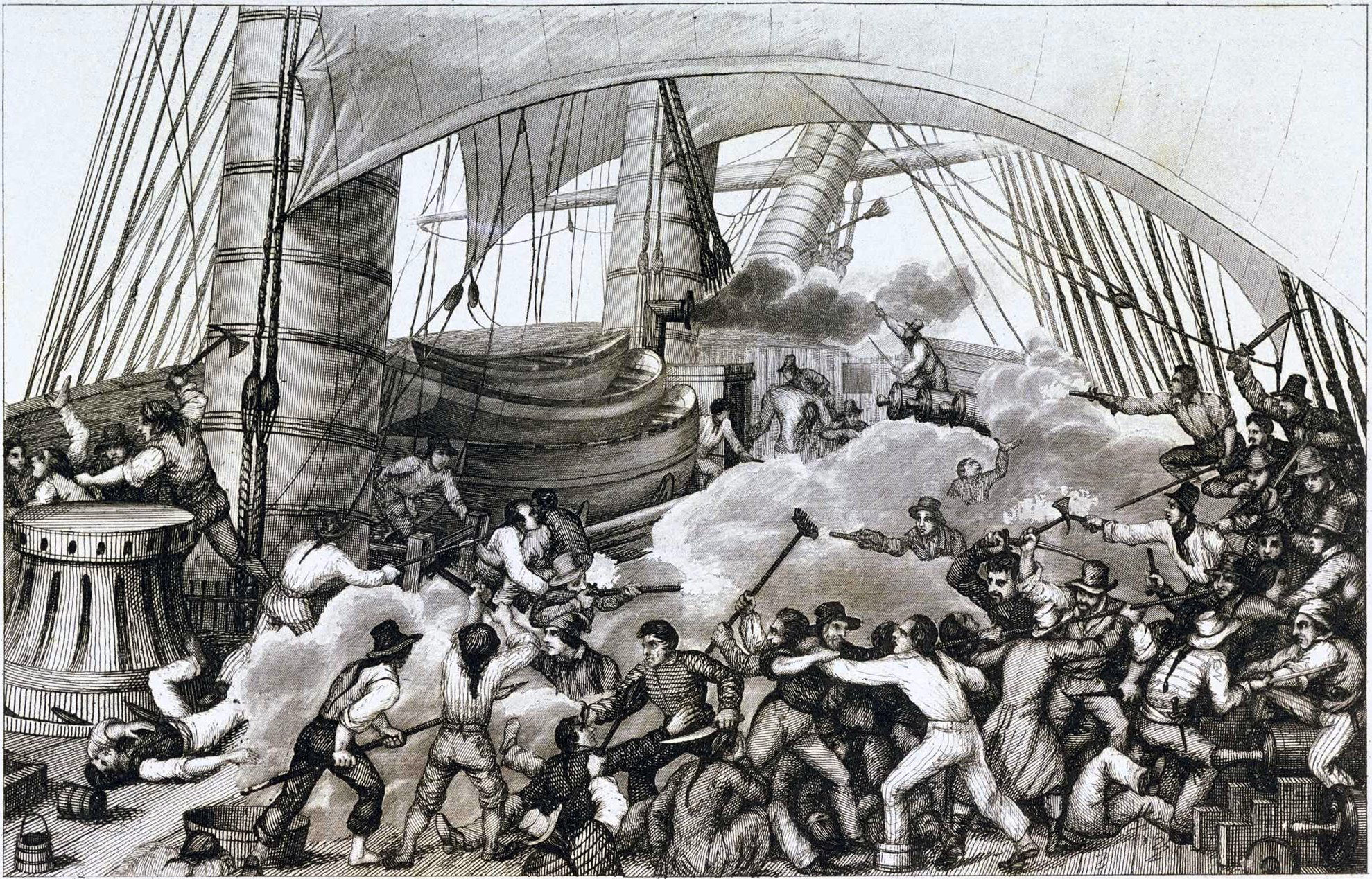 Boarding of Triton by the privateer Hasard (ex British pilot ship Cartier), captained by Robert Surcouf